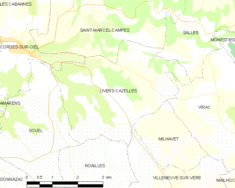 Map of French municipality Livers-Cazelles